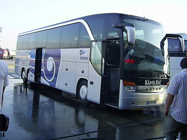 Setra 400-series type of bus serving long distance bus company Kamil Koc, Turkey.